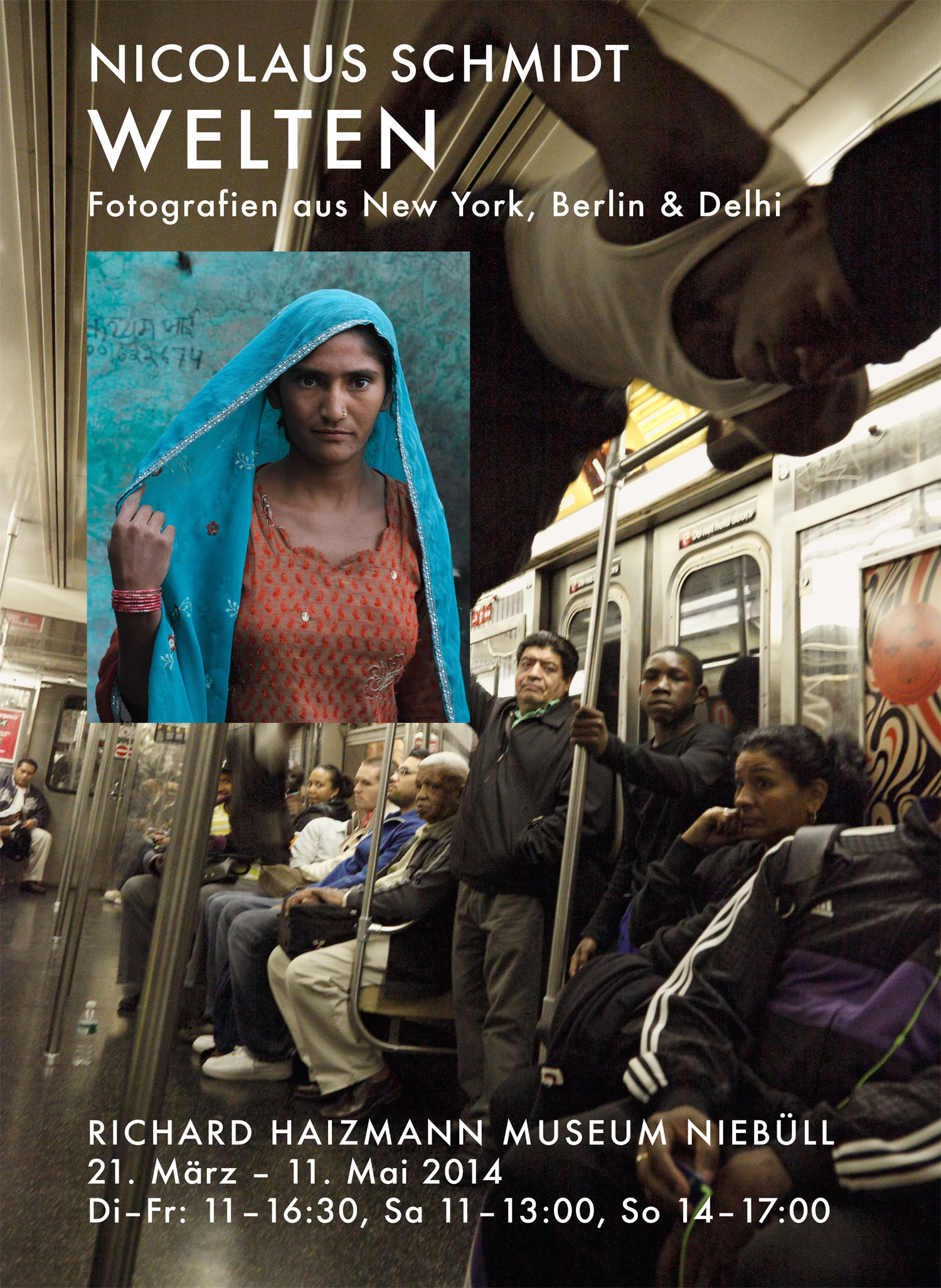 Poster for the exhibition WELTEN at Richard Haizmann Museum, Museum of Modern Art Niebüll. This is my original design. The printed poster looks a bit different. I was asked and so I provide the file for commons. Alterations can be made if the poster remains a poster more or less. A cutting copy of the integrated photo of the Indian woman would be a copyright infringement.